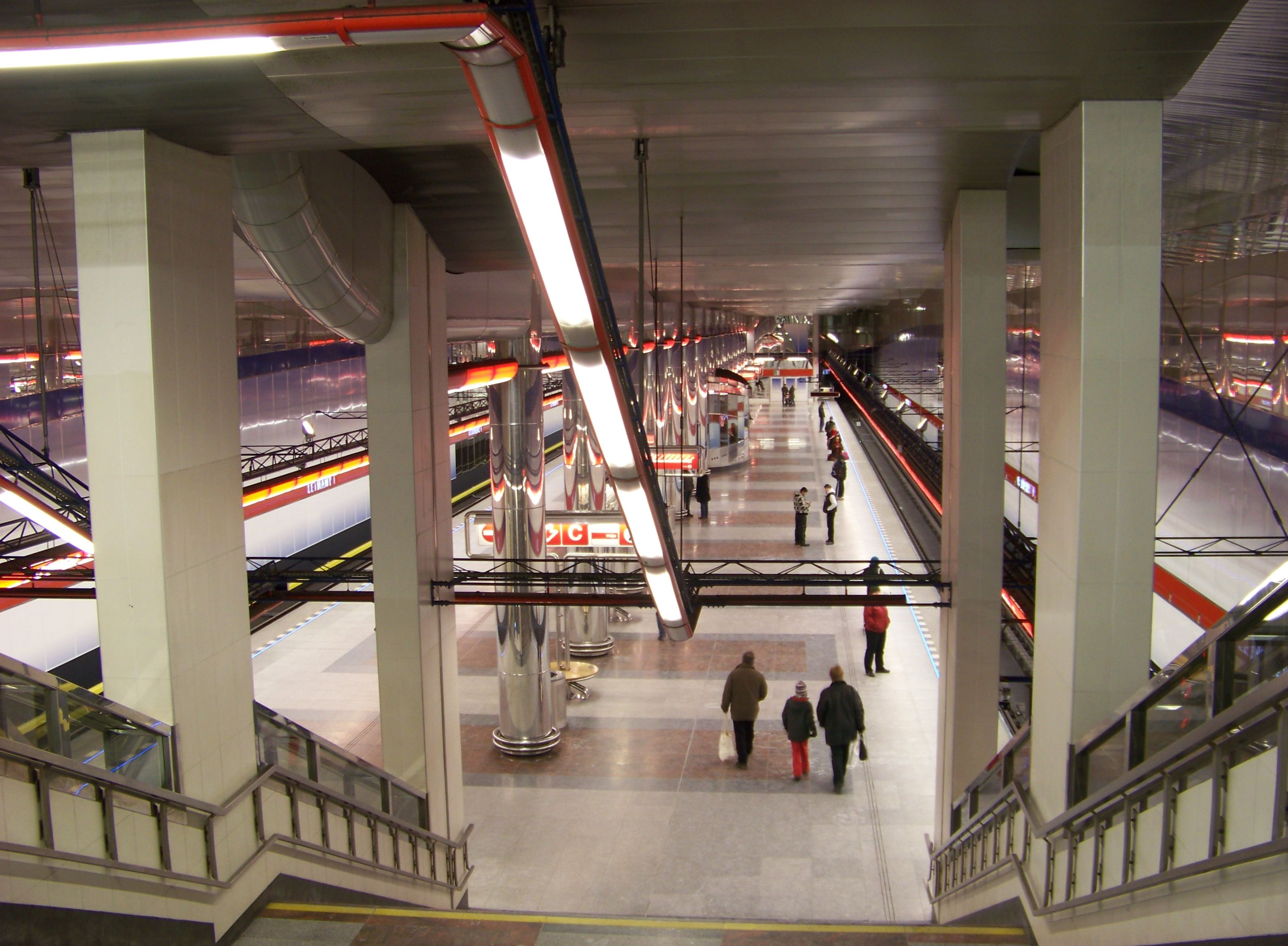 Prague-Letňany, the Czech Republic. A platform of Letňany metro station.